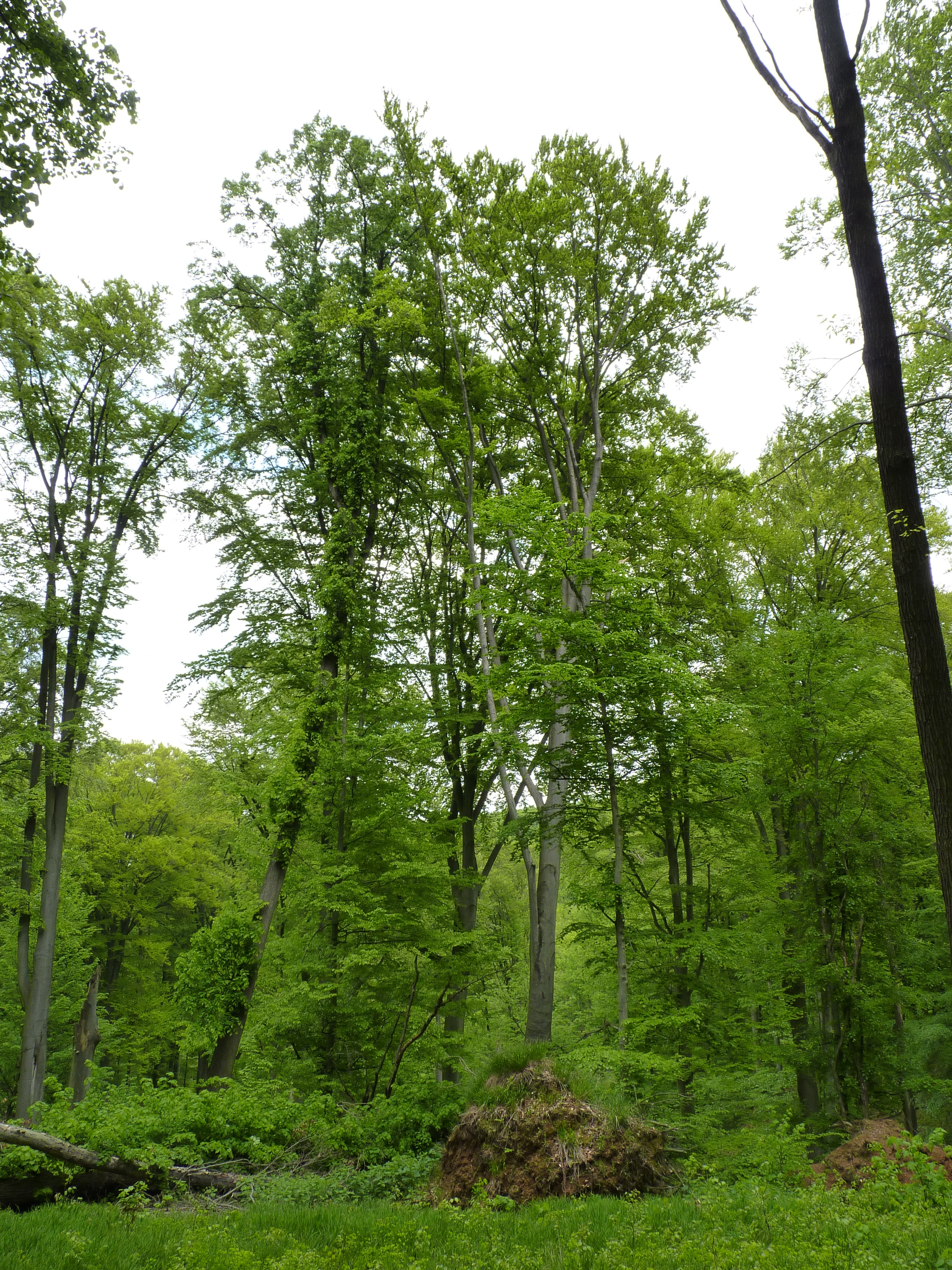 Nature reserve "Jelení žlíbek", Brno-City District, South Moravian Region, Czech Republic